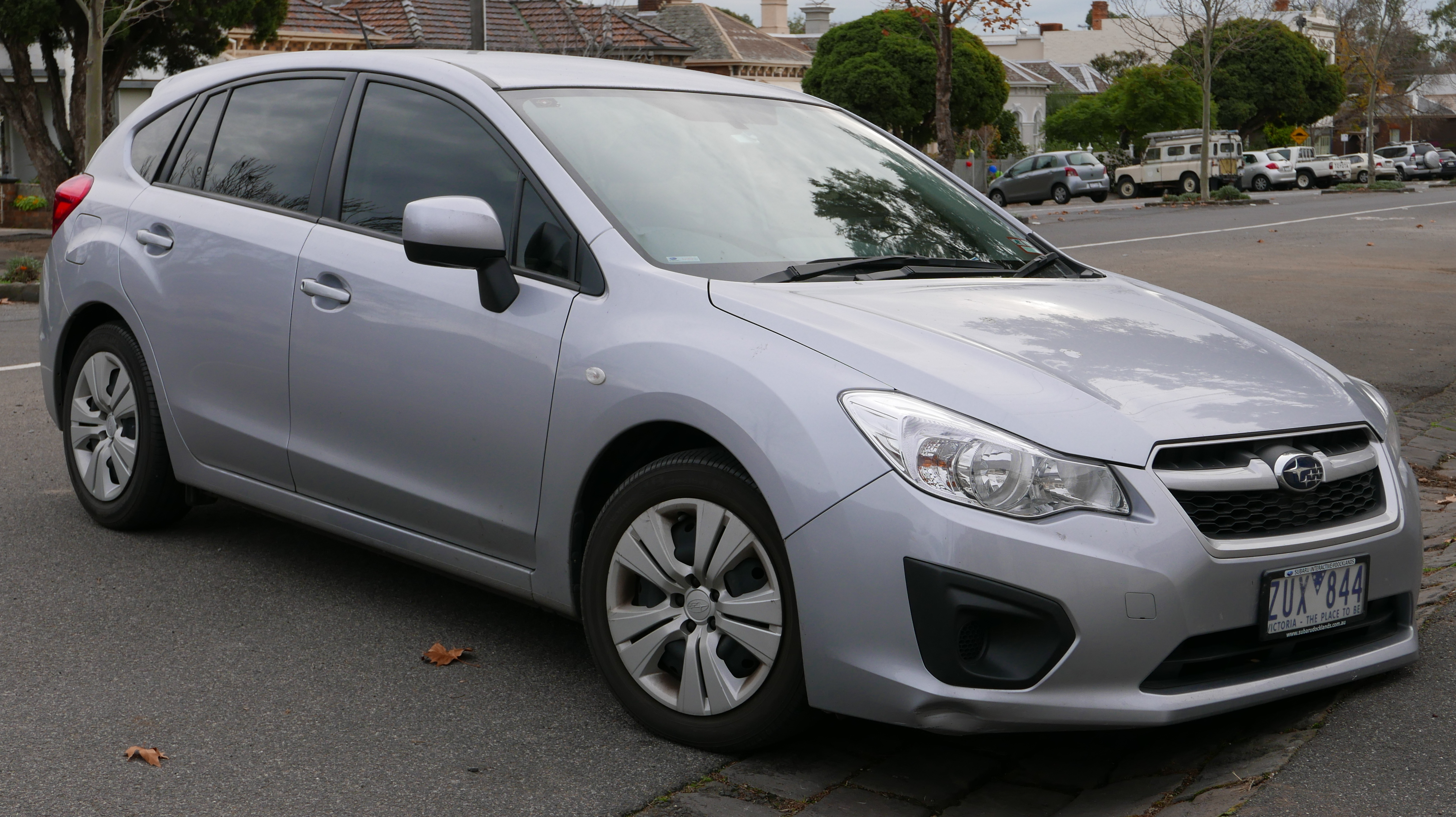 2013 Subaru Impreza (GP7 MY13) 2.0i hatchback. Photographed in Fitzroy North, Victoria, Australia. Vehicle registration enquiry resultsJurisdictionVictoriaRegistrationZUX844Chassis codeJF1GP7KC5DG025791Engine codeR611721Compliance date2013-05Year of manufacture2013